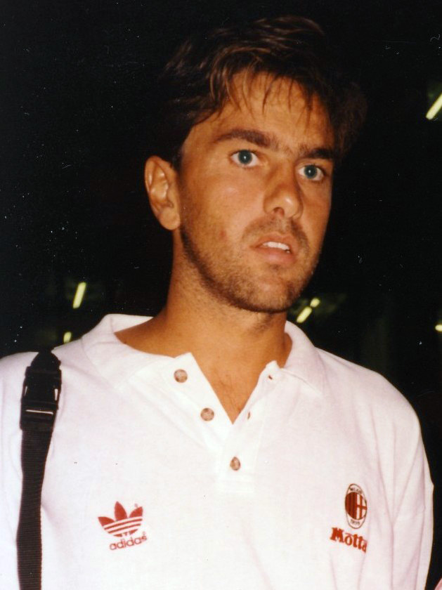 Alessandro Costacurta, 1992